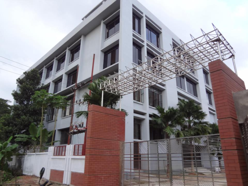 It is the gate of BTEC